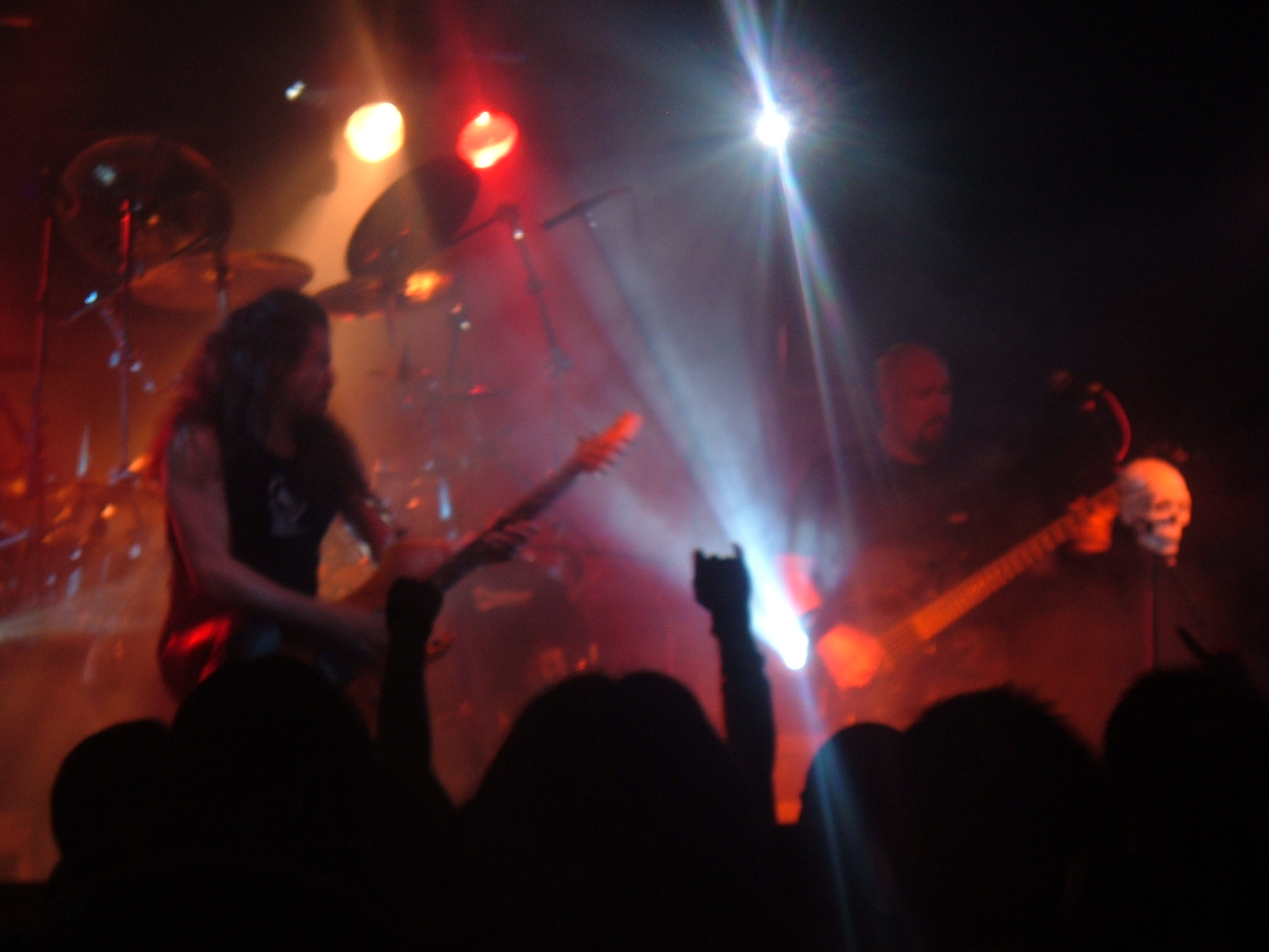 Picture taken by myself with my camera. Live in Milan, Italy (at the Rainbow). 13 April 2006. Members: Peter Wagner - vocals, bass Victor Smolski - guitar, Keyboard Mike Terrana - drums